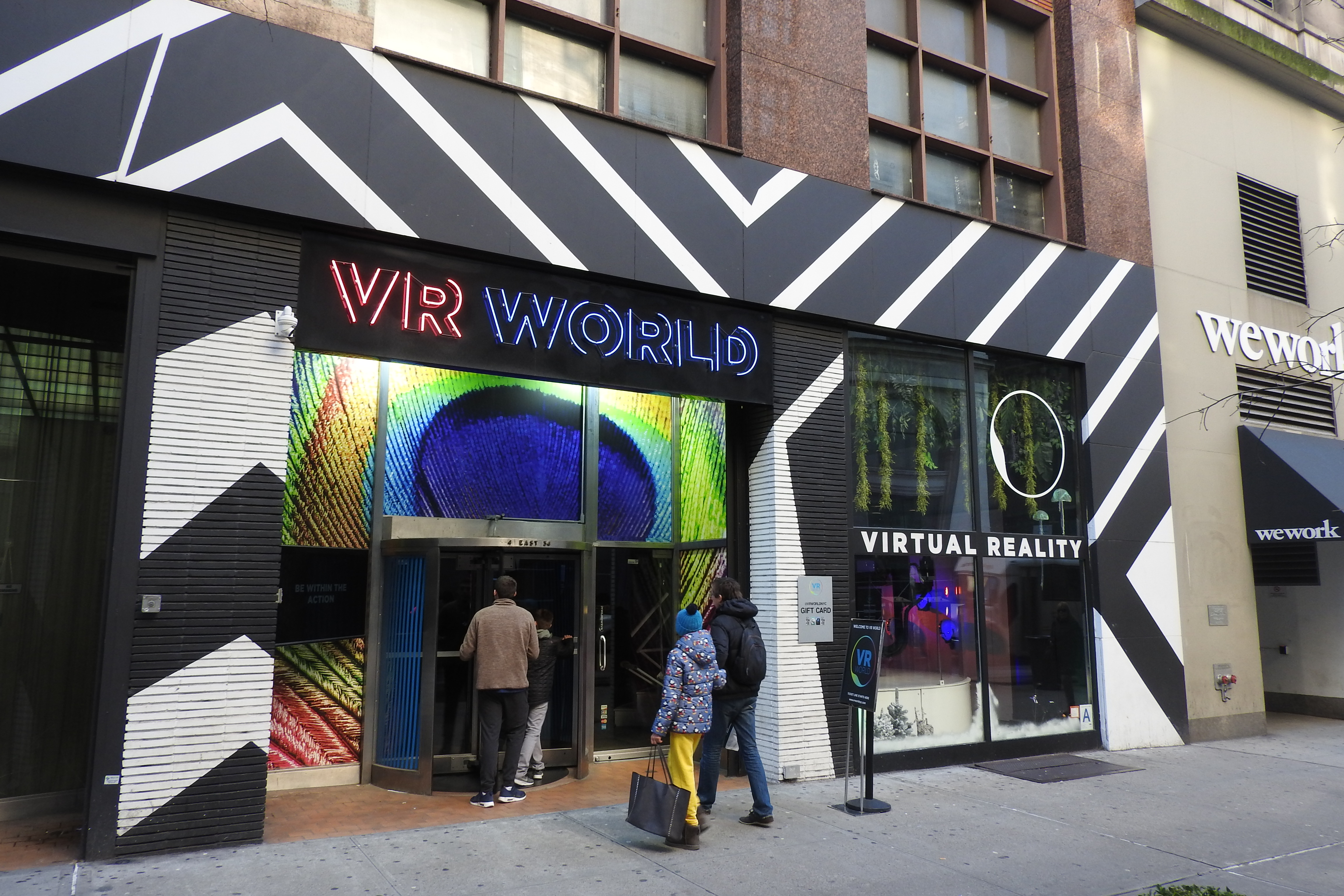 Looking west from 34th Street